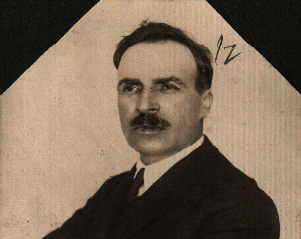 Elin Pelin